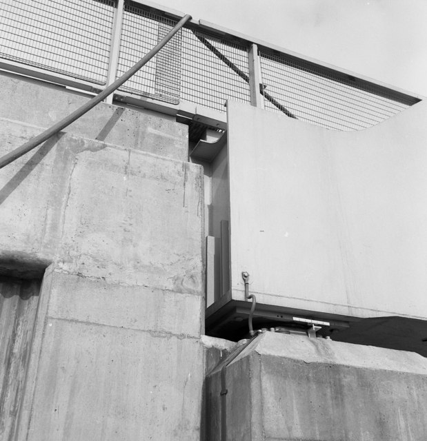 Expansion bearing, Metro bridge, Newcastle The Metro (or Queen Elizabeth) bridge across the Tyne, is made of metal, and of course will expand as it becomes warmer. This photograph shows the bearing at the east side of the northern end of the bridge. It was taken on a chilly April day and it can be seen that several inches of expansion have been allowed for.